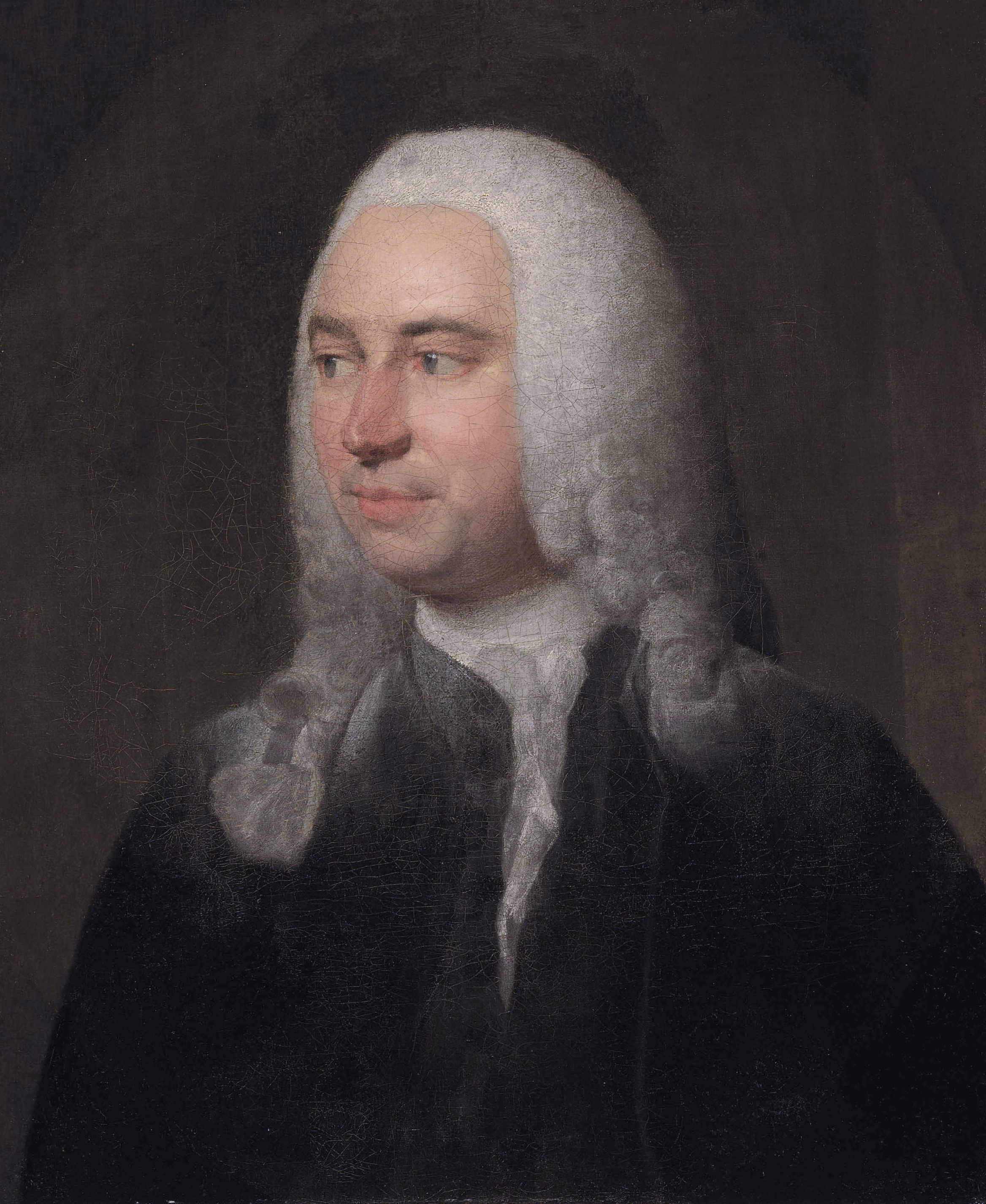 The surgeon, André Levret (1703-1780)